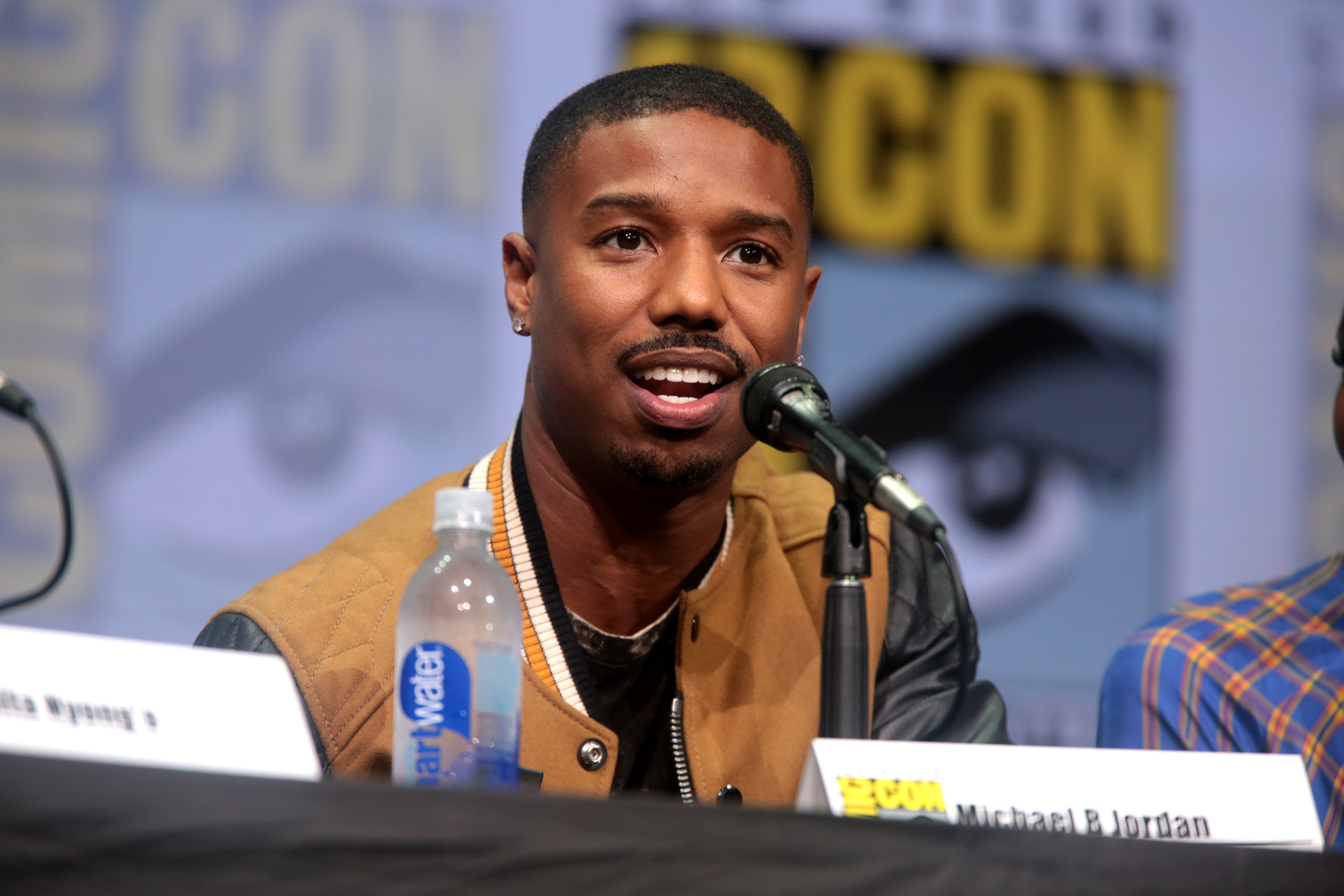 Michael B. Jordan speaking at the 2017 San Diego Comic Con International, for "Black Panther", at the San Diego Convention Center in San Diego, California.